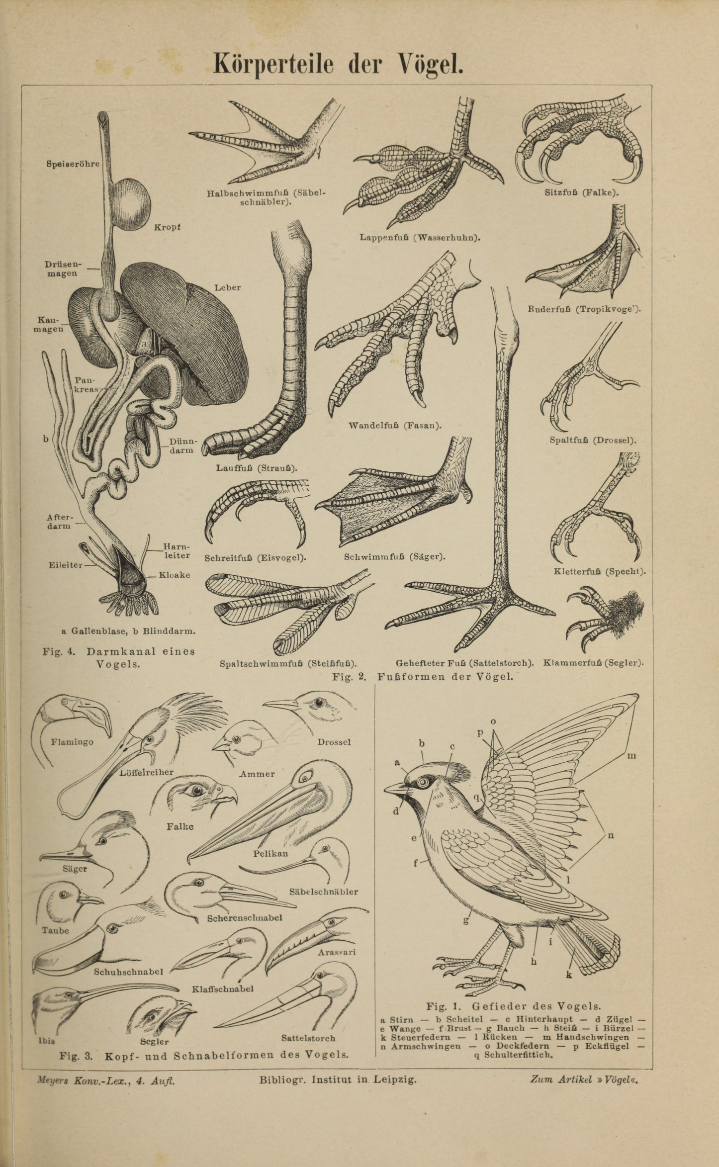 Anatomy of birds